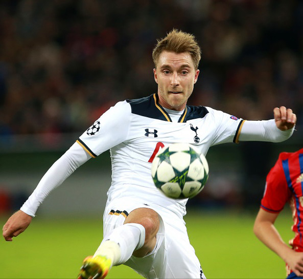 Eriksen in action against CSKA Moscow during a 2016 Champions League match.